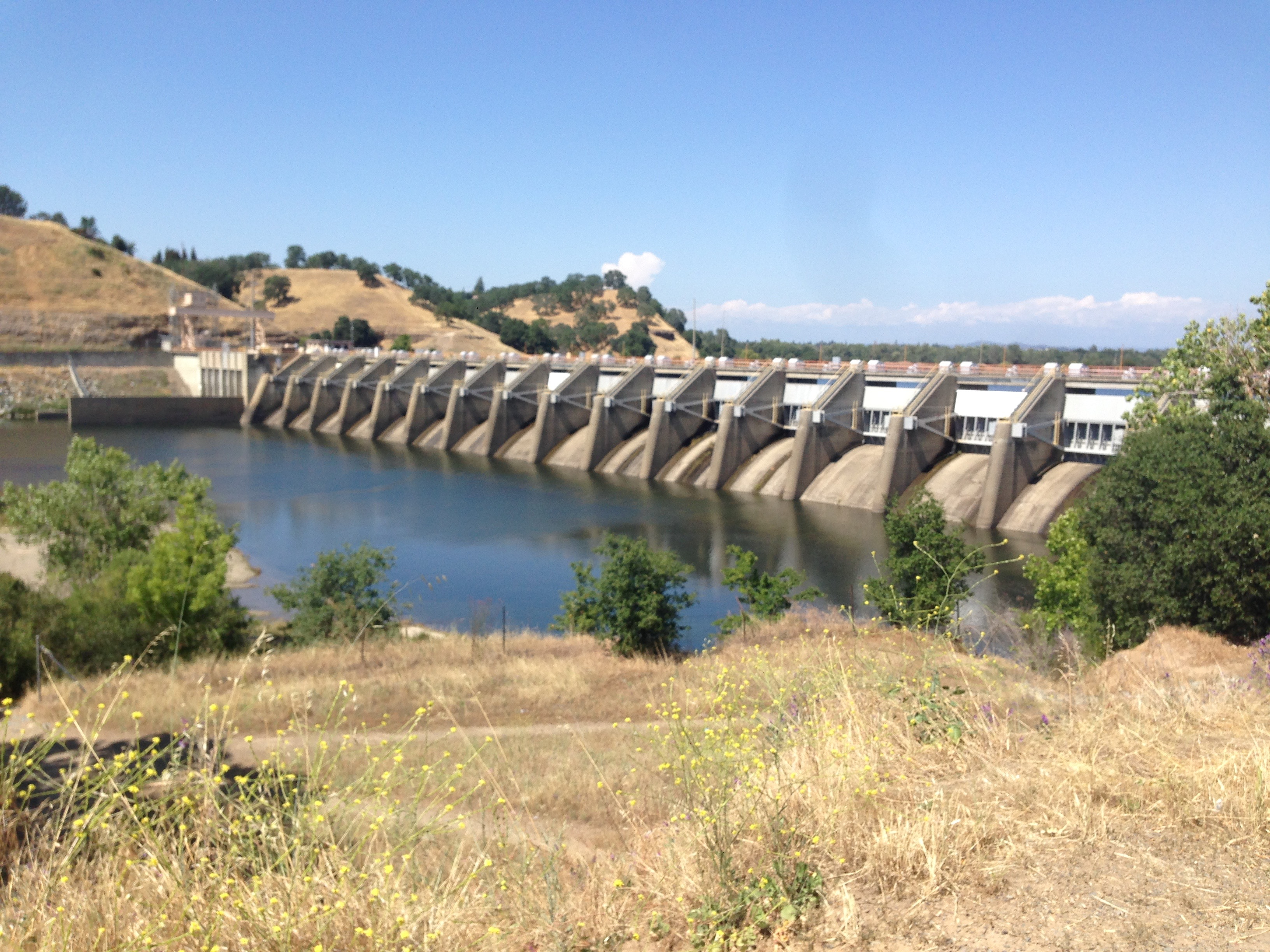 side view of Nimbus Dam on 5/24/15